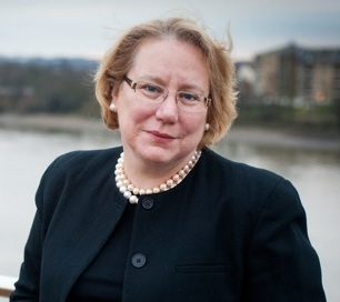 Headshot of Ann Olivarius